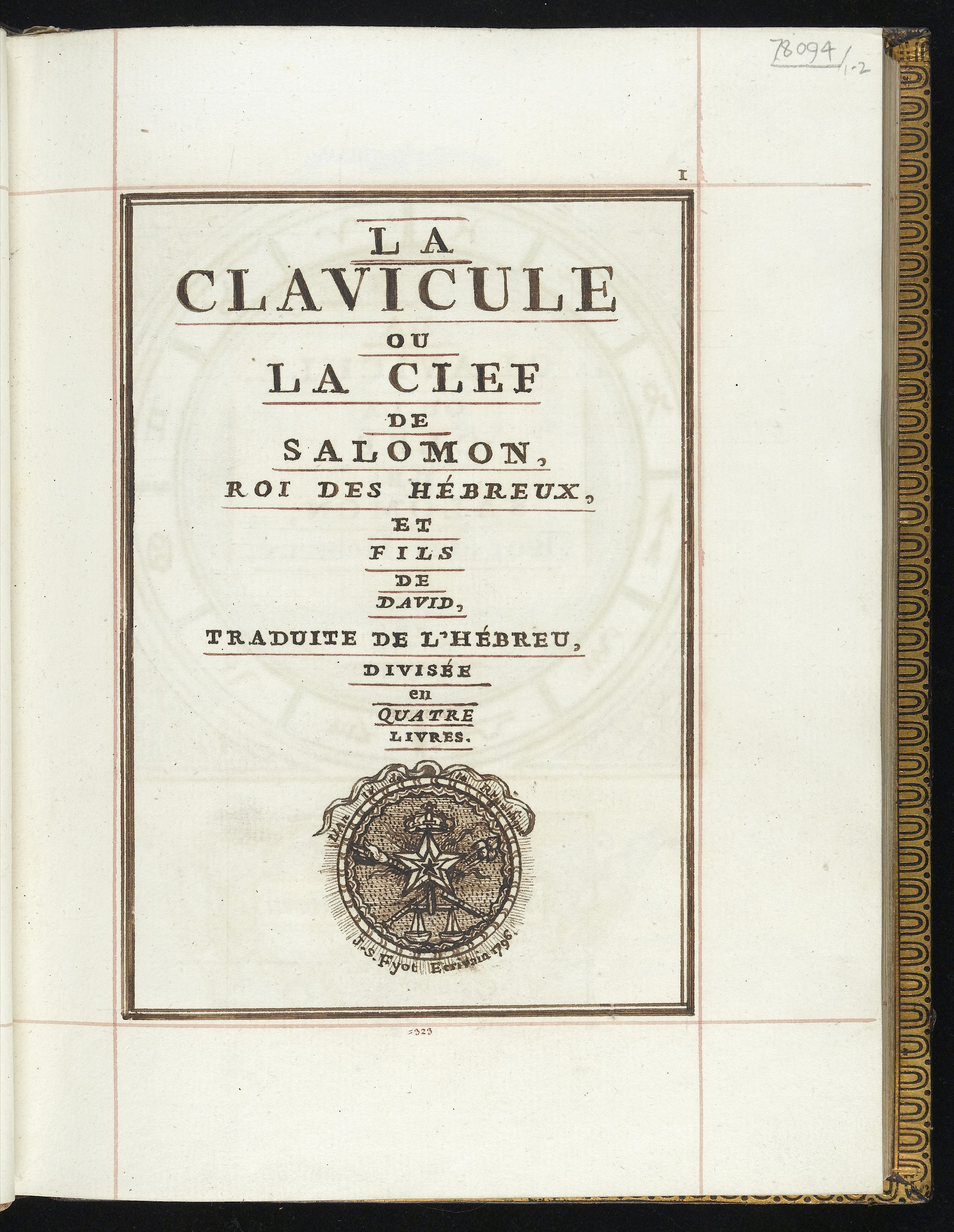 La Clavicule ou La Clef de Salomon, the Key of Solomon Archives & Manuscripts